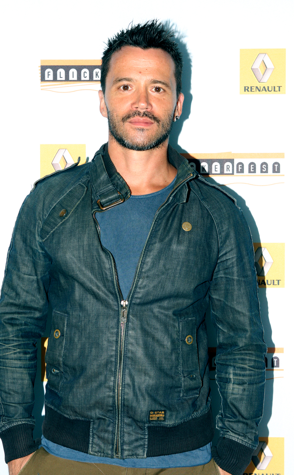 Flickerfest Short Film Festival opens at Bondi Pavilion, Bondi Beach, Sydney, Australia - 11th January 2013...